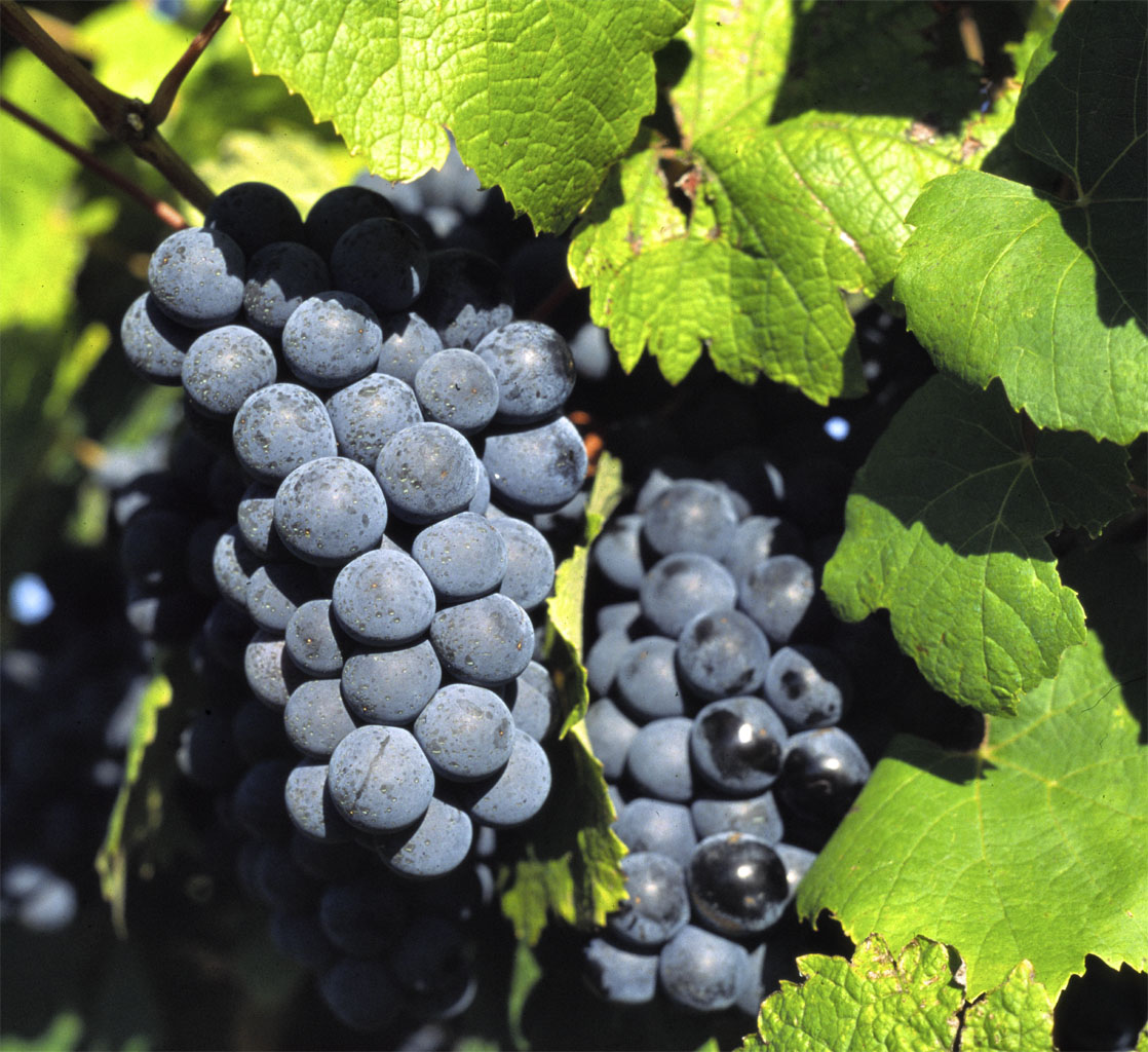 Photo of Duras grape from German Wikipedia, released by BerndtF under GNU-FDL